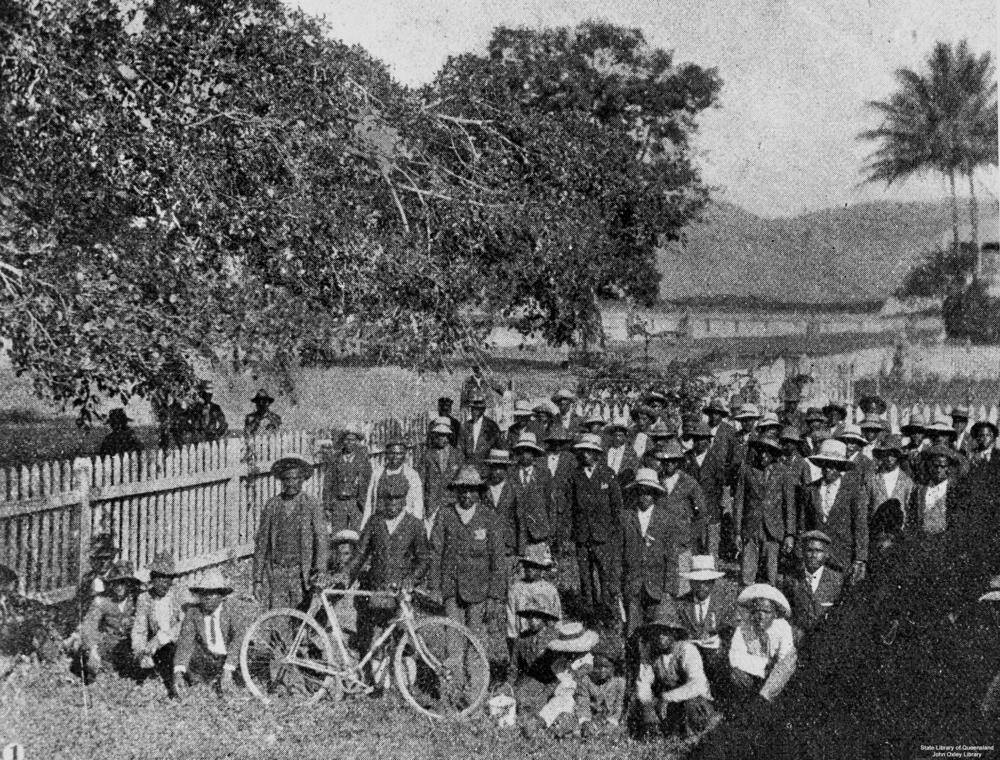 South Sea Islanders waiting for deportation, Cairns, 1906. Departure of the first shipment of deported Polynesians from Cairns under the Commonwealth Act: the muster at the Court House for medical examinations. (Description supplied with photograph). A large group of South Sea Islanders queueing for medical examinations prior to deportation from Cairns, 1906.